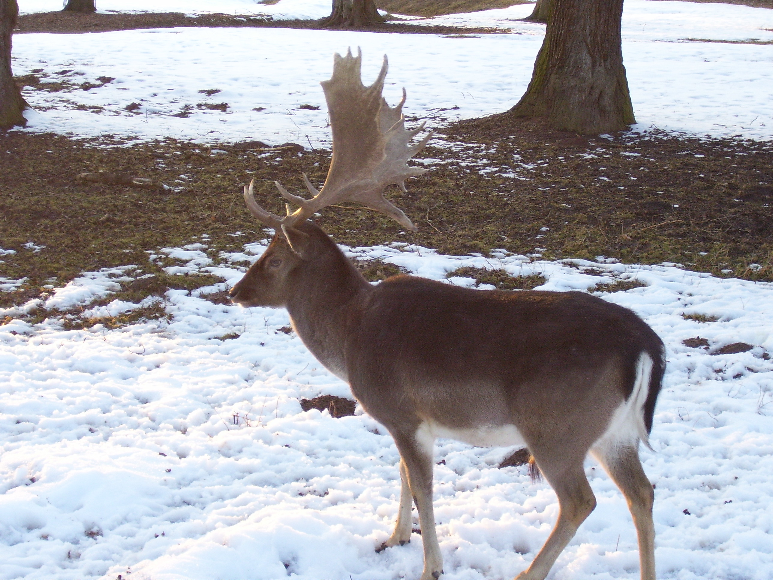 Male Dama dama pic self made by J C D 18:07, 26 March 2006 (UTC)